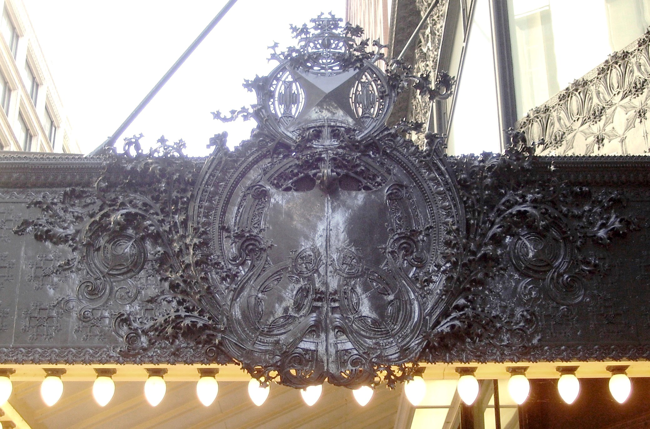 A closeup of the marquee on the north facade of the Carson, Pirie, Scott and Company Building at 1 South State Street at East Madison Street in Chicago, Illinois, also known as the Sullivan Center.